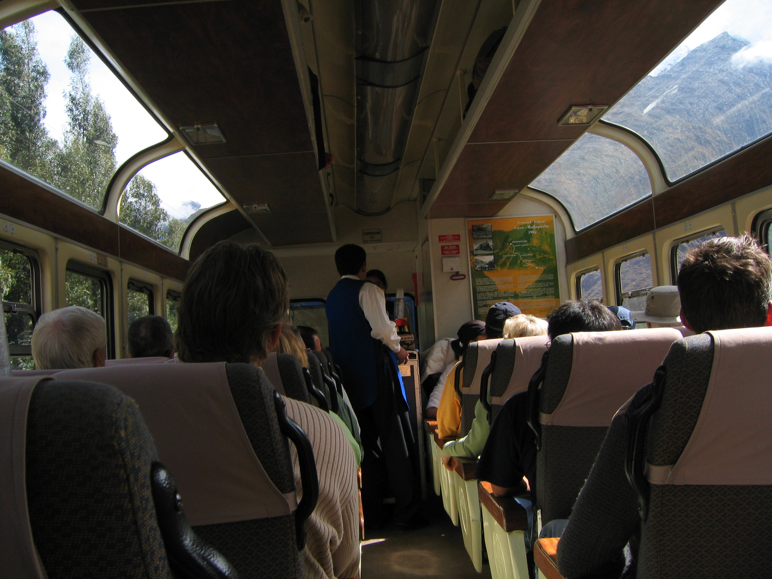 Panoramic railcar PeruRail Passenger car inside, the "Vistadome", travels the line from Cuzco to the Inca fortress of Machu Picchu and is composed of rebuilt Ferrostaal railcars.